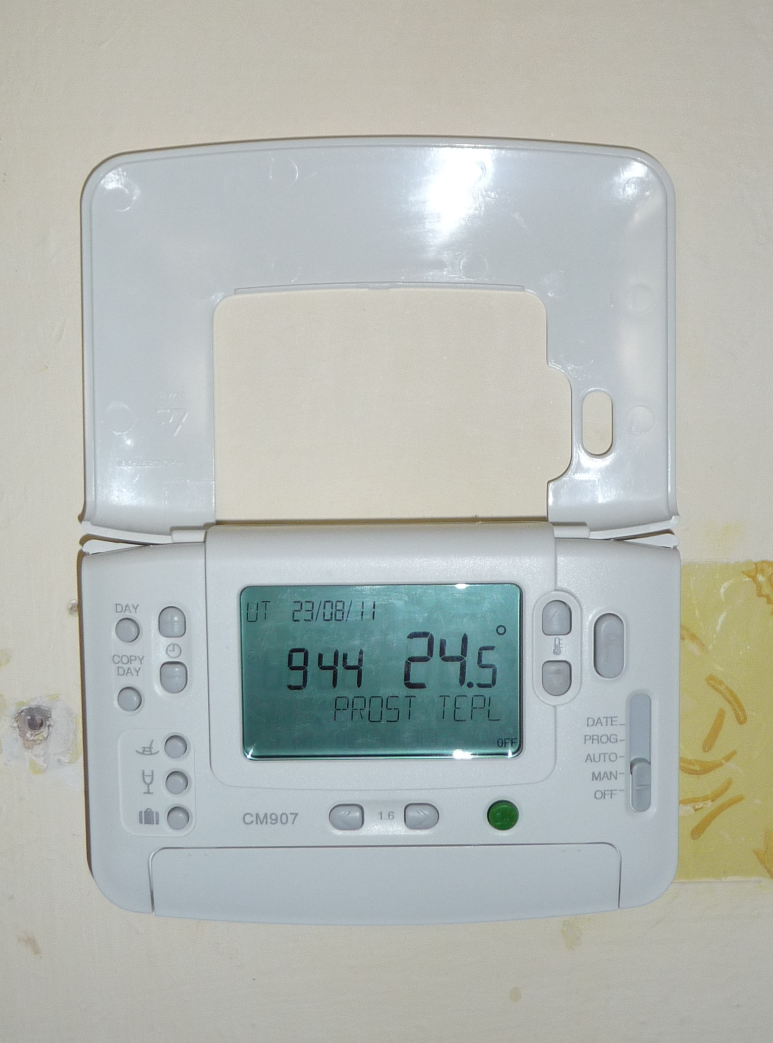 Electronic thermostat (Honeywell CM907)